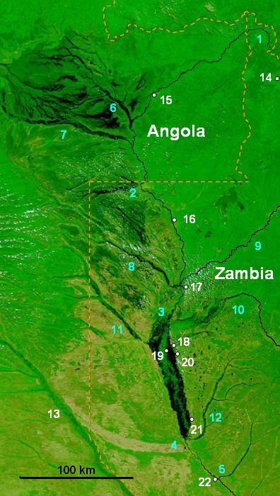 NASA false-colour image of the upper Zambezi and Barotse (Balozi) floodplain in extreme flood in 2003, water shows as dark areas. Blue numbers are rivers: 1 Zambezi source, 2 Zambezi at Chavuma Falls, 3 at start of Barotse Floodplain, 4 at end of the floodplain at the Kalongola Ferry, 5 at Ngonye Falls. Tributaries: 6 Chifumage, 7 Luena, 8 Lungwebungu, 9 Kabompo, 10 Luampa, 11 Luanguinga, 12 Lui, 13 Cuando. Towns (white numbers): 14 Mwinilunga, 15 Cazombo, 16 Zambezi, 17 Lukulu, 18 Limulunga, 19 Lealui, 20 Mongu, 21 Senanga, 22 Sioma..